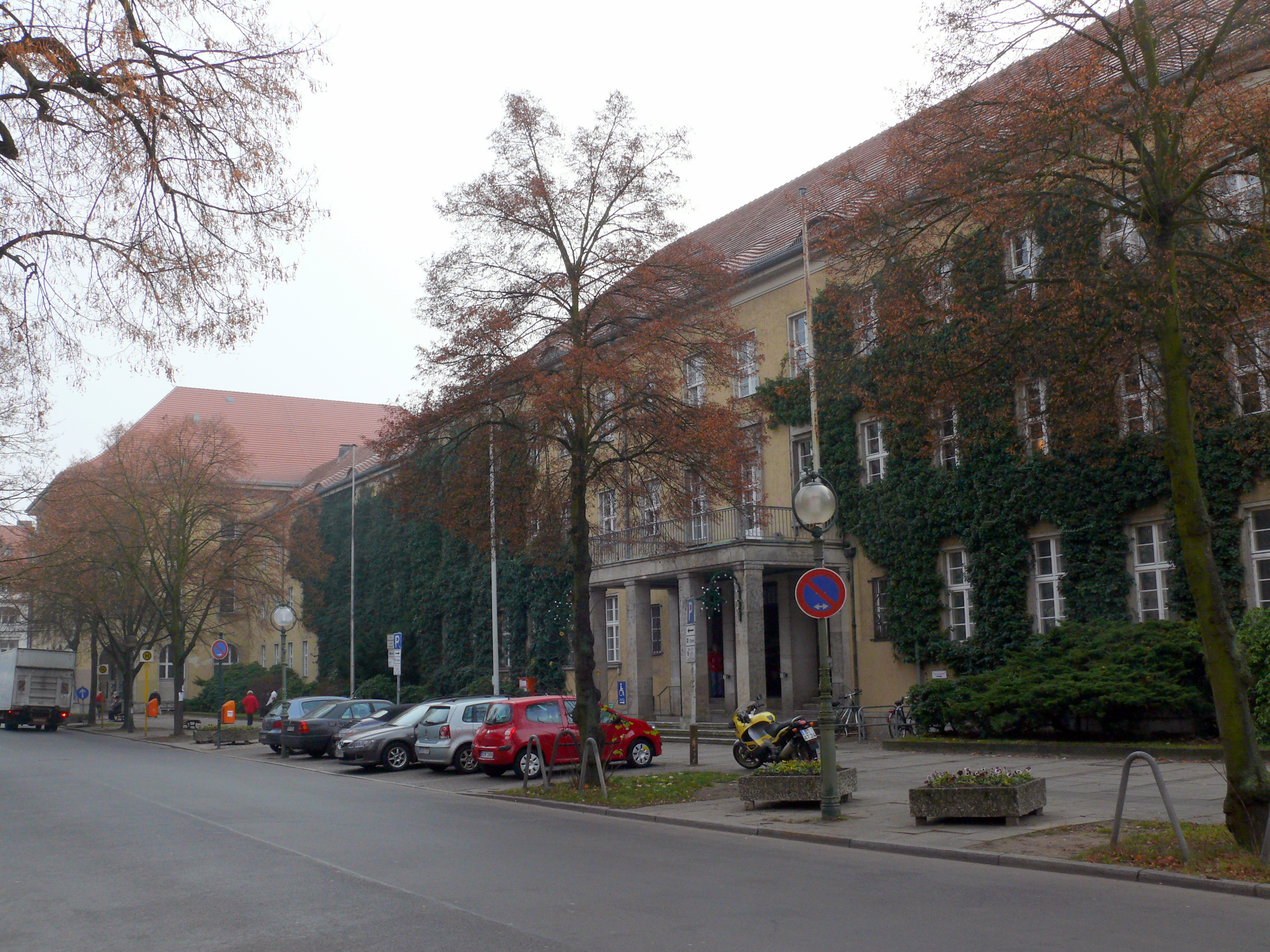 Berlin-Zehlendorf Kirchstraße Rathaus